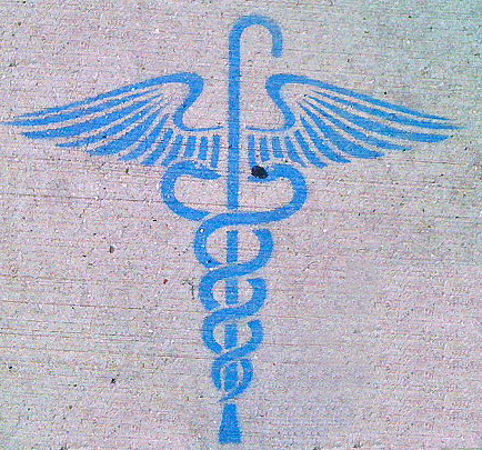 Caduceus symbol with a walking cane called "Snakes on a cane", bumper of House md. Photo taken in West Town, Chicago.